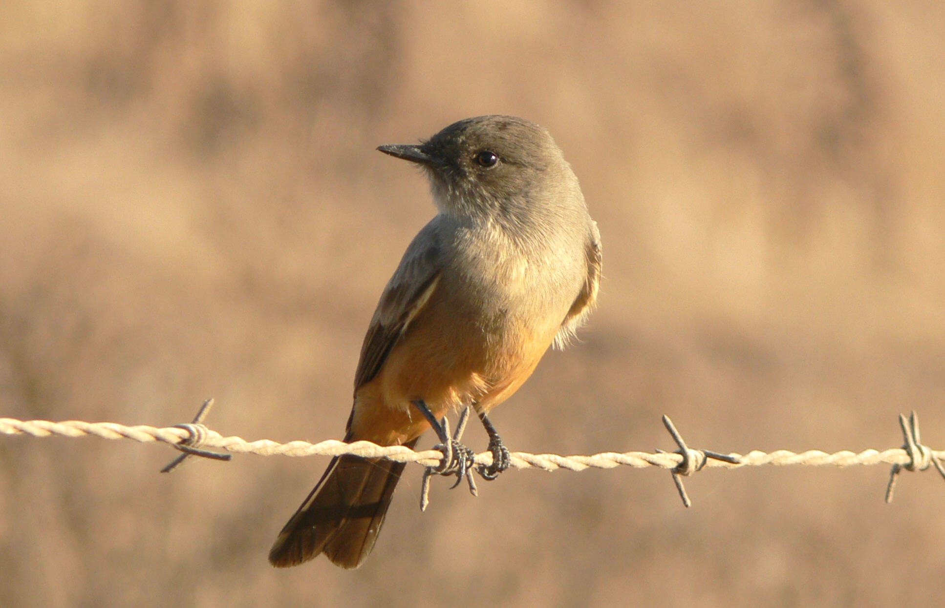 Sayornis saya Usually I would not post 9 photos of the same bird but I just Could Not decide which to delete, as I love them all. That must sound like I'm pretty impressed with myself, I know. However, this was one of those lucky times when conditions were just right for snapping a pretty good shot...the light was over my shoulder, the bird was unusually cooperative (I believe we Bonded, in a way), the background was compatible and I had a lot of time to get several shots before the bird bolted. So thank you for your patience as I wallow in the pleasure of my own work. : -)